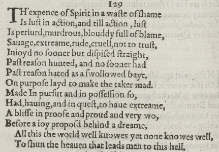 1609 Quarto Version